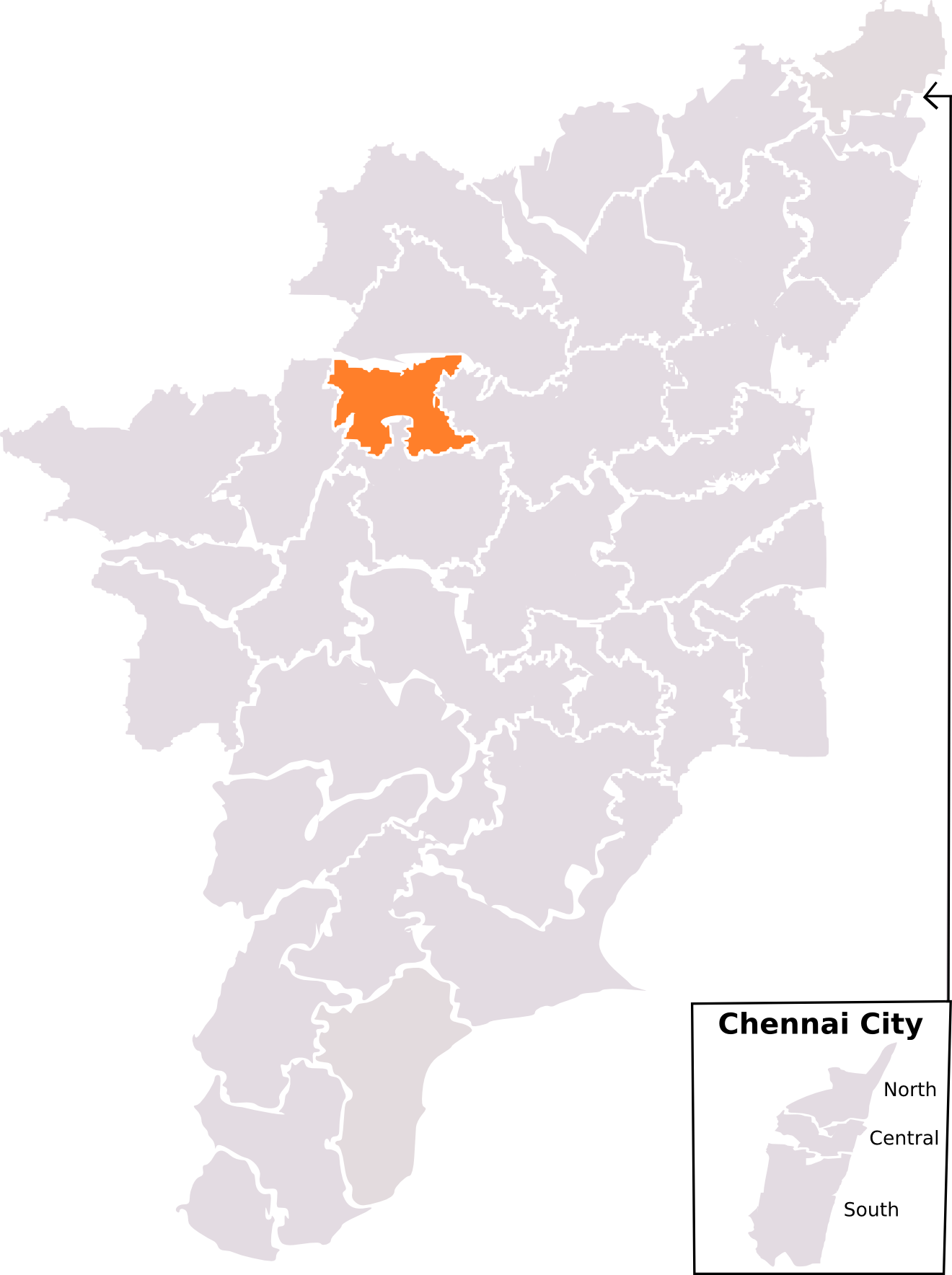 Lok Sabha Election map labeling each constituency for individual pages for Tamil Nadu after delimitation starting 2009 election. Map is based on ECI drawn map from